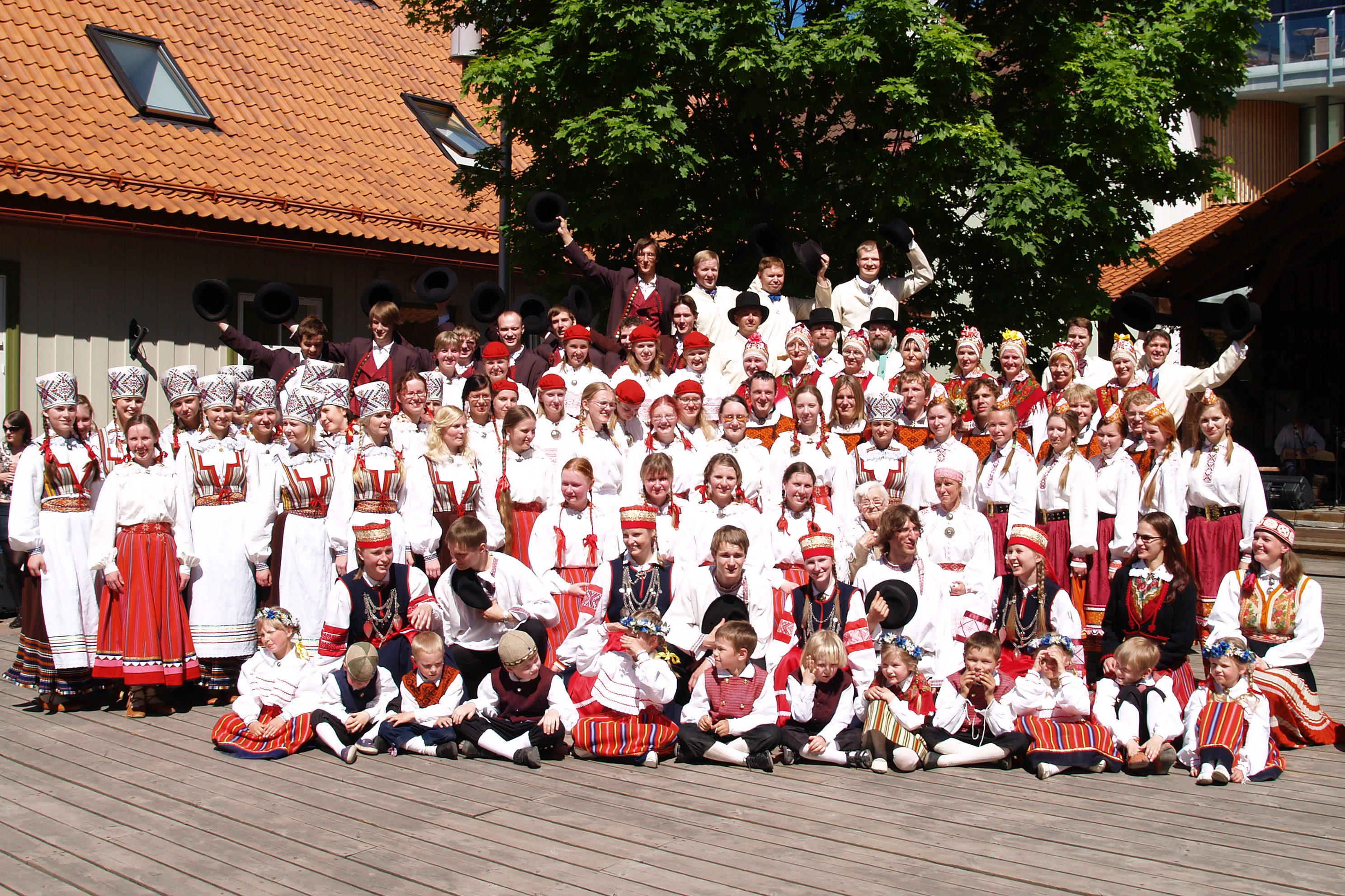 Tartu University’s Folk Art Ensemble after performance at Antoniuse Õu in Tartu.